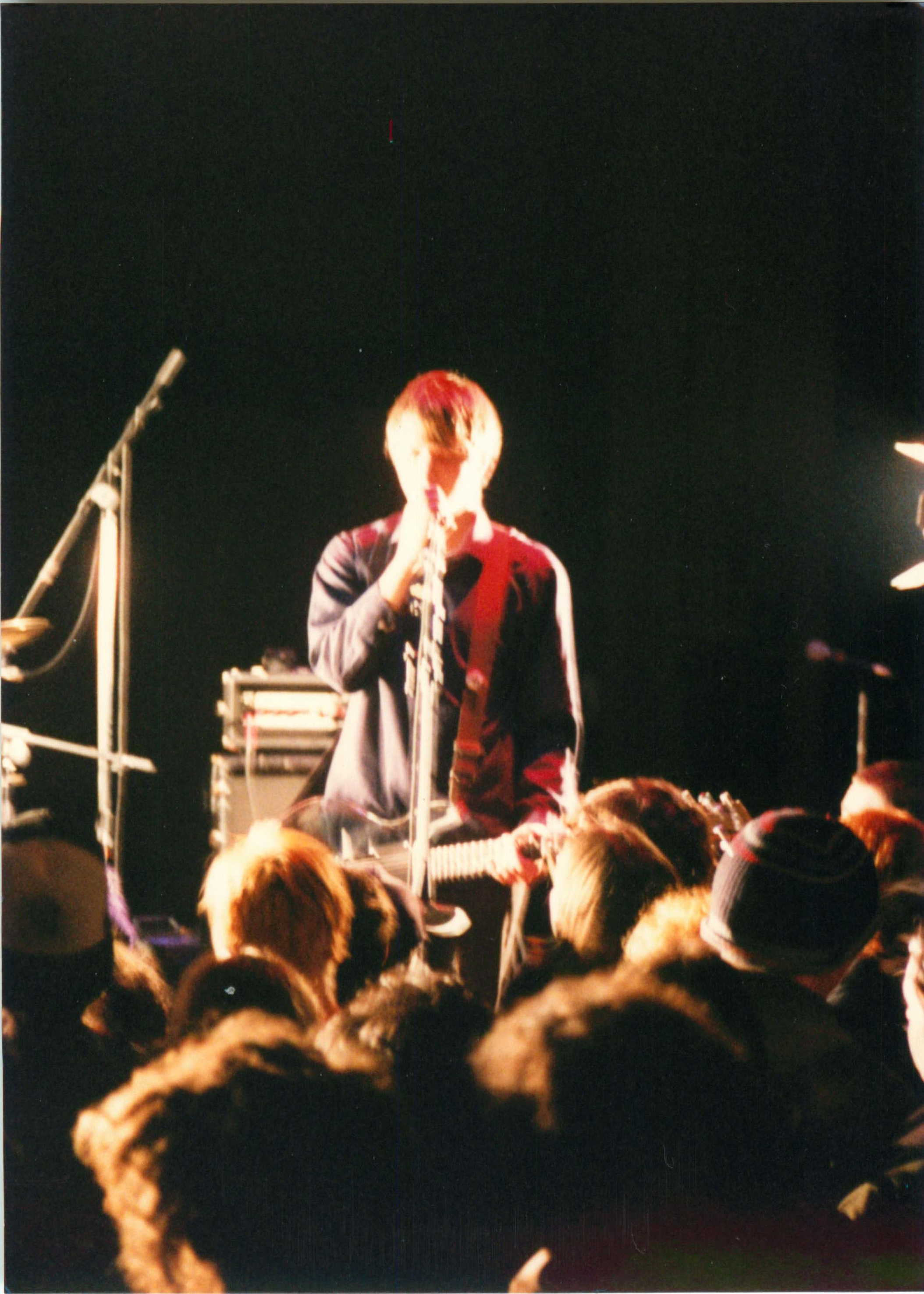 Unwound